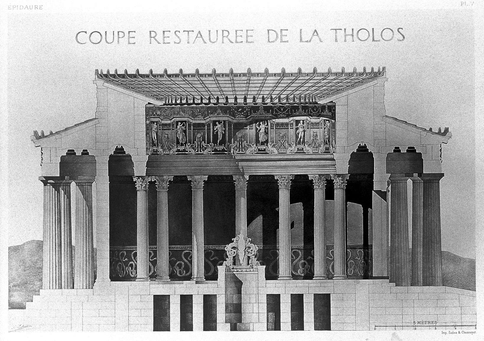 Reconstructions of the sacred precints at Epidaurus: Reconstruction of section of tholos of Epidaurus. General Collections Keywords: epidaurus; Alphonse Defrasse